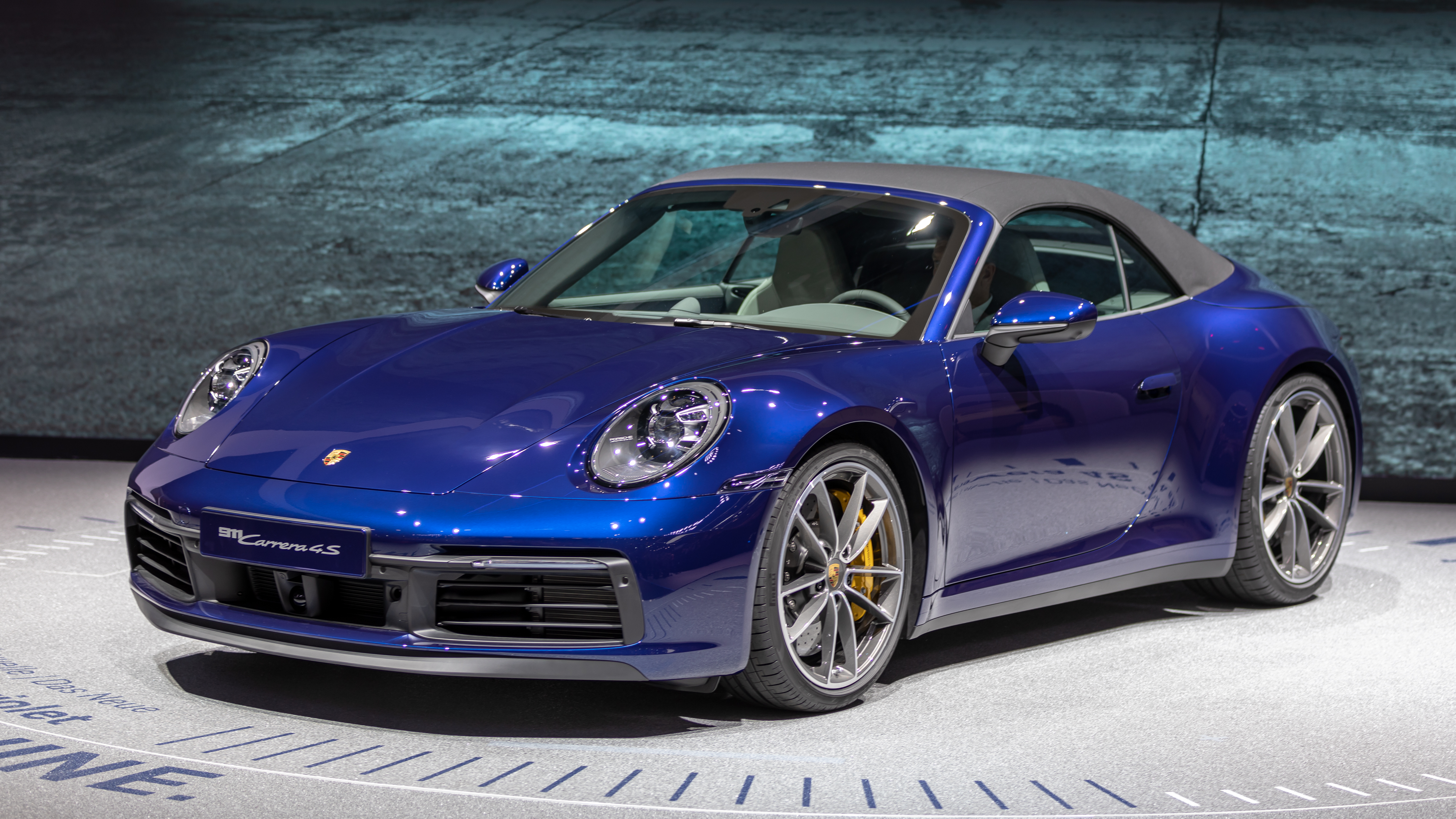 Porsche 911 Carrera 4S Cabrio at Geneva International Motor Show 2019